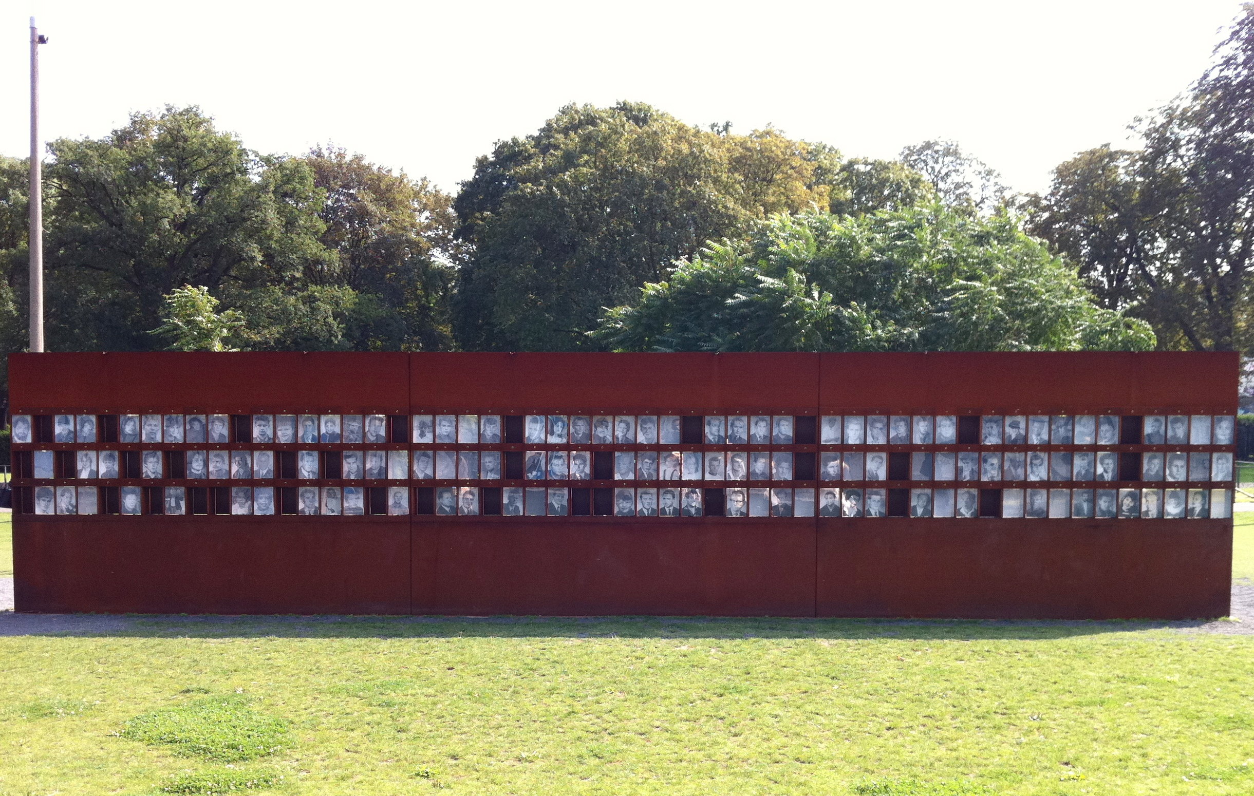 "Fenster des Gedenkens" shows pictures of the death victims of the berlin wall.